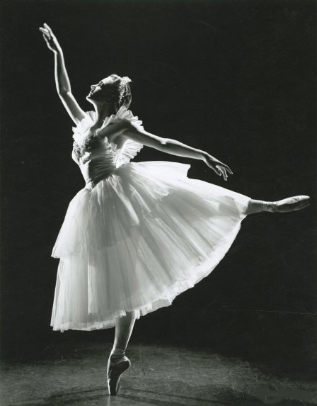 Ballerina Jocelyn Vollmar as Myrthe in Giselle, San Francisco Ballet, 1947